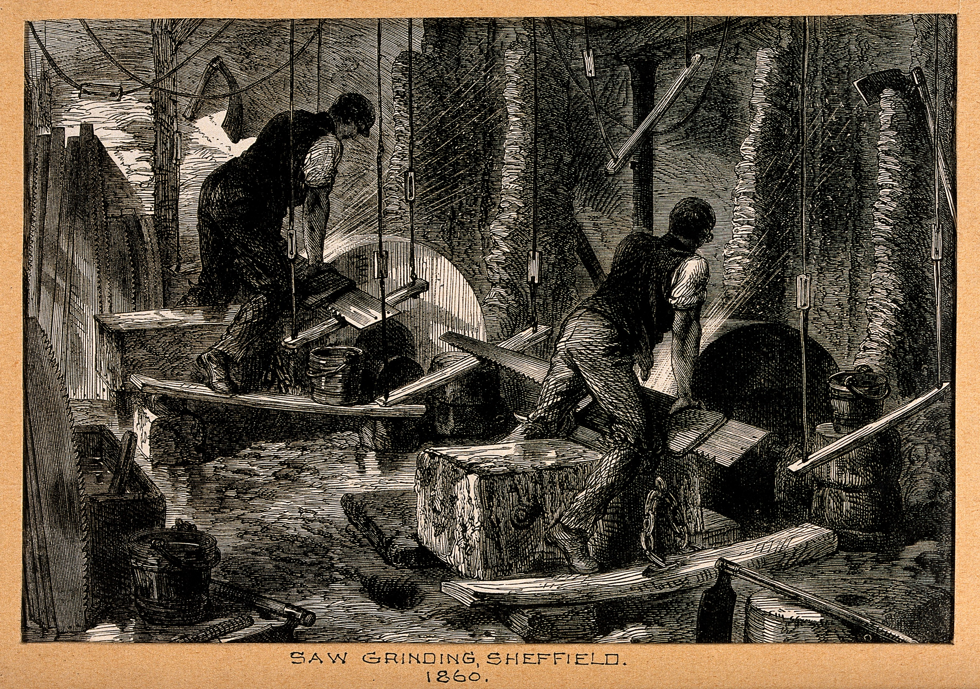 Saw grinding in Sheffield: interior view. Wood engraving. Iconographic Collections